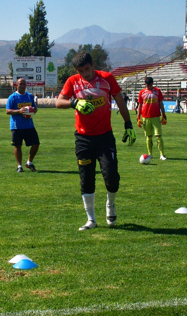 Paulo Garcés, chilean football goalkeeper.